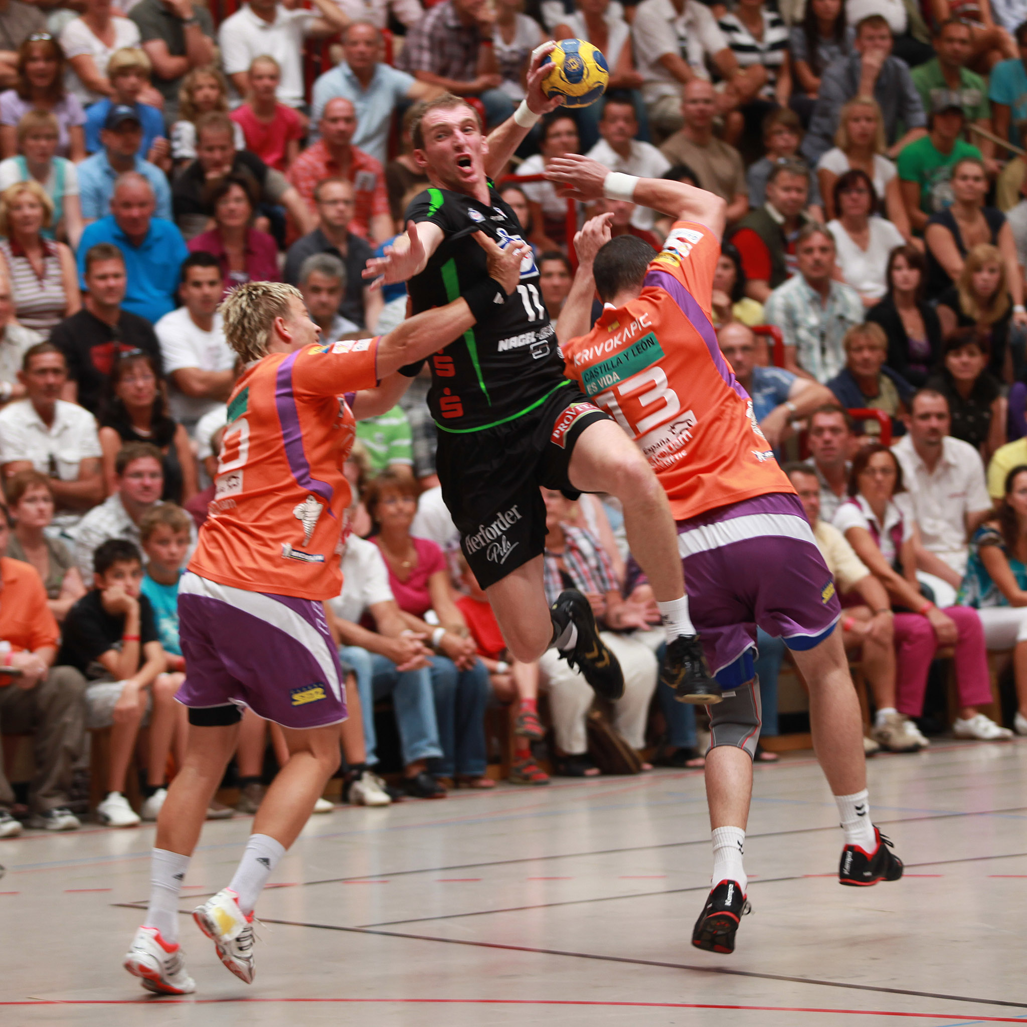 Holger Glandorf, German handball player from TBV Lemgo during the Schlecker Cup 2009 in Ehingen (Germany)